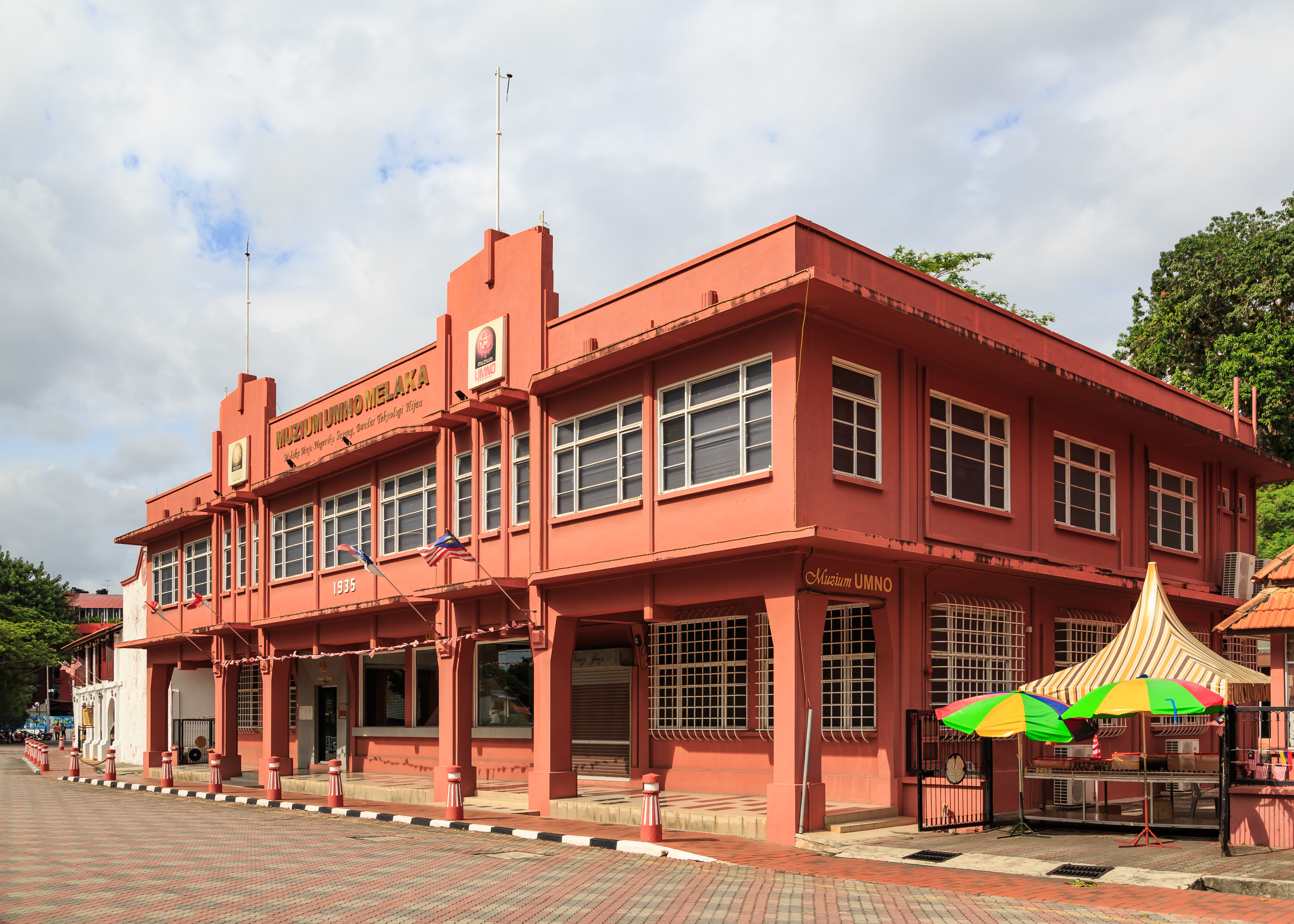 Malacca, Malaysia: UMNO Museum Melaka